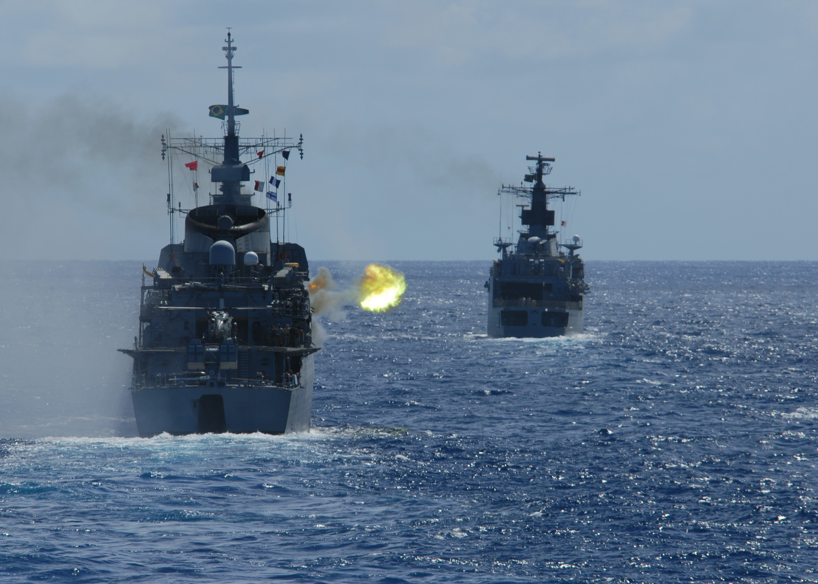 ATLANTIC OCEAN (April 22, 2011) The Brazilian navy frigate Bosisio (F 48) fires at an unmanned aerial vehicle during a drone exercise (DRONEX) with ships from the U.S. and Mexico during the Atlantic phase of UNITAS 52. (U.S. Navy photo by Mass Communication Specialist 1st Class Steve Smith/Released)